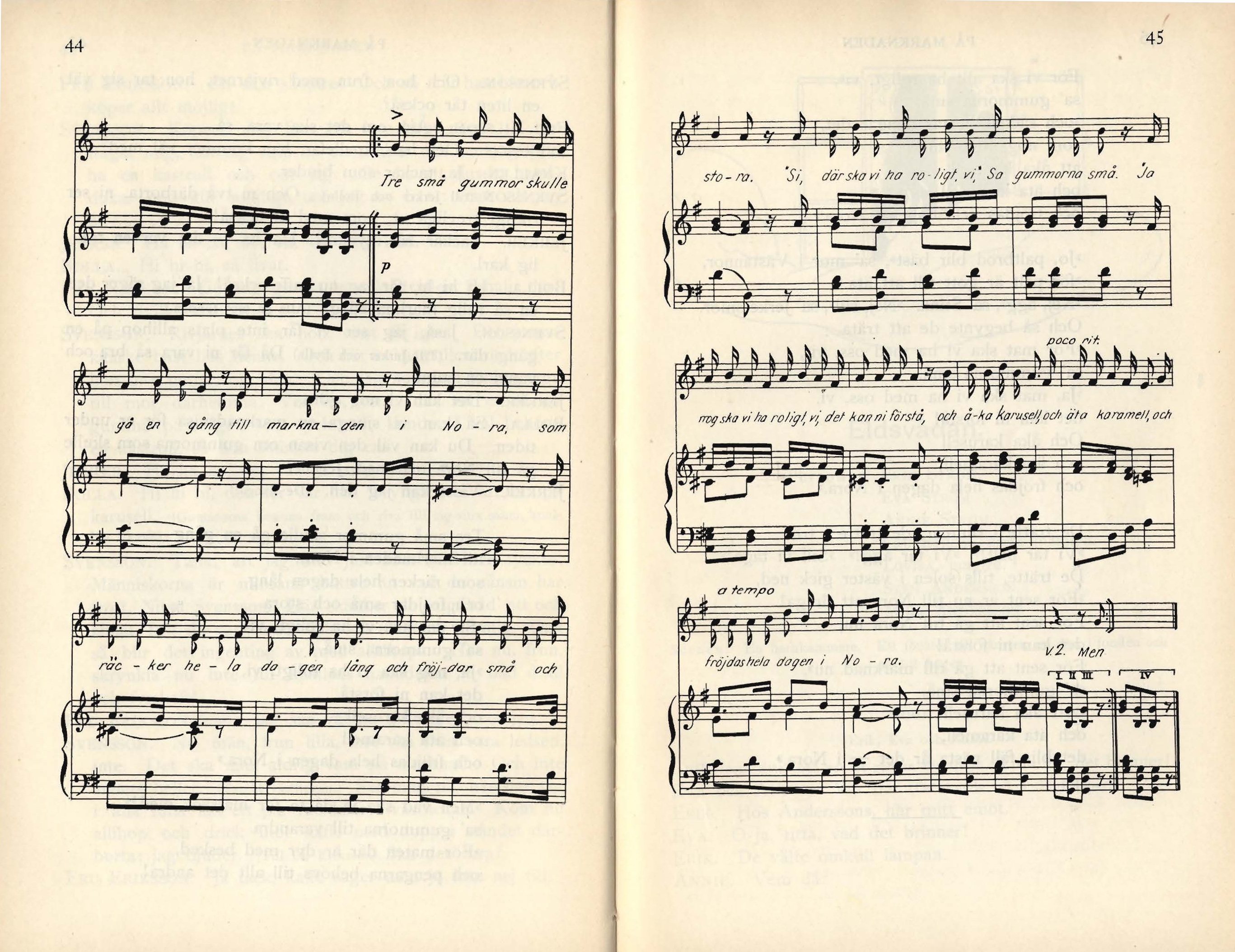 Copy from the book:Roos, Anna Maria; (1915). Lekar och sagospel. Stockholm: Norstedt. sid. 44–45